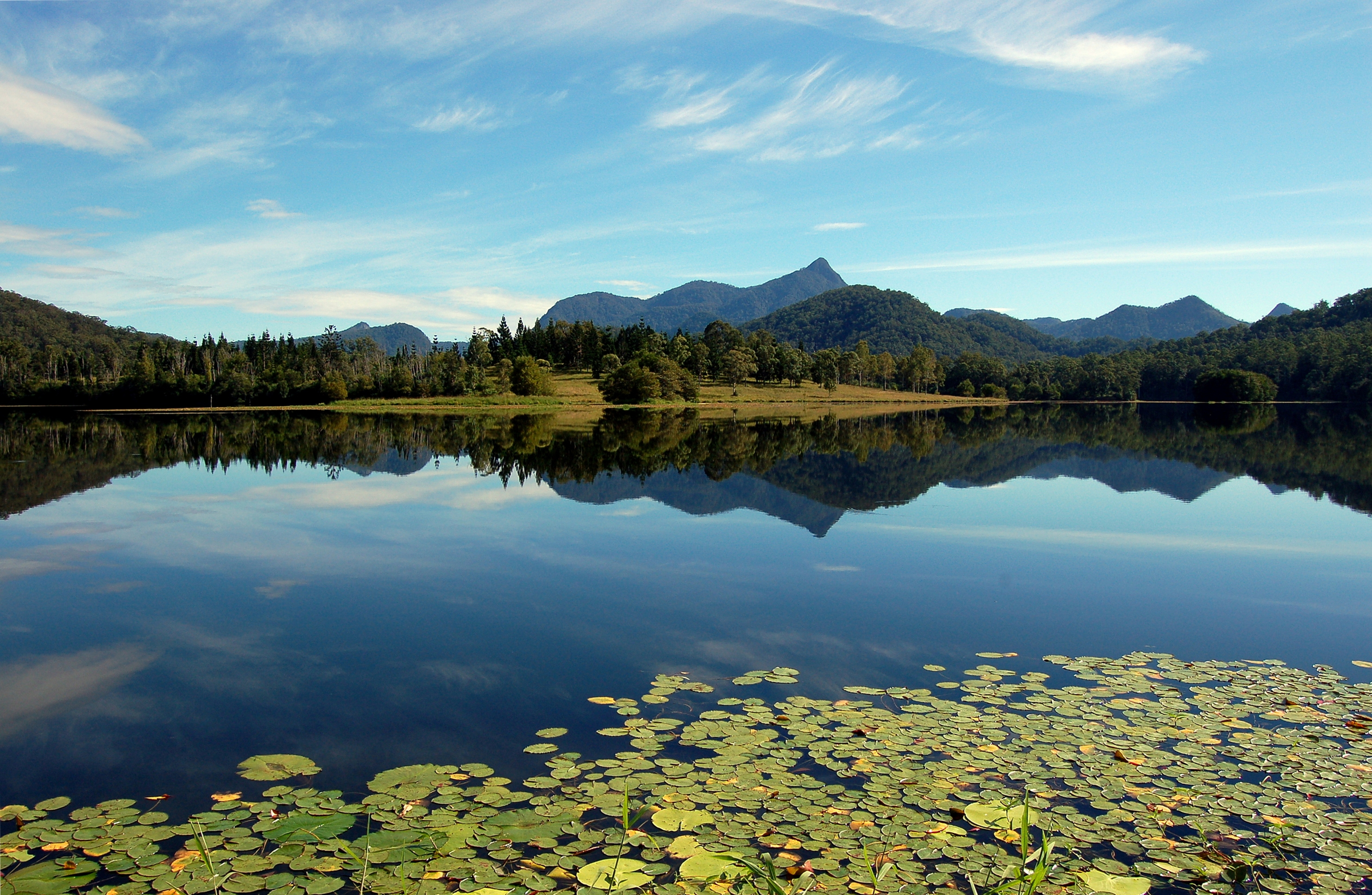 Mount Warning's view in australia (New South Wales) from the clarrie hall dam. Picture taken in the morning.